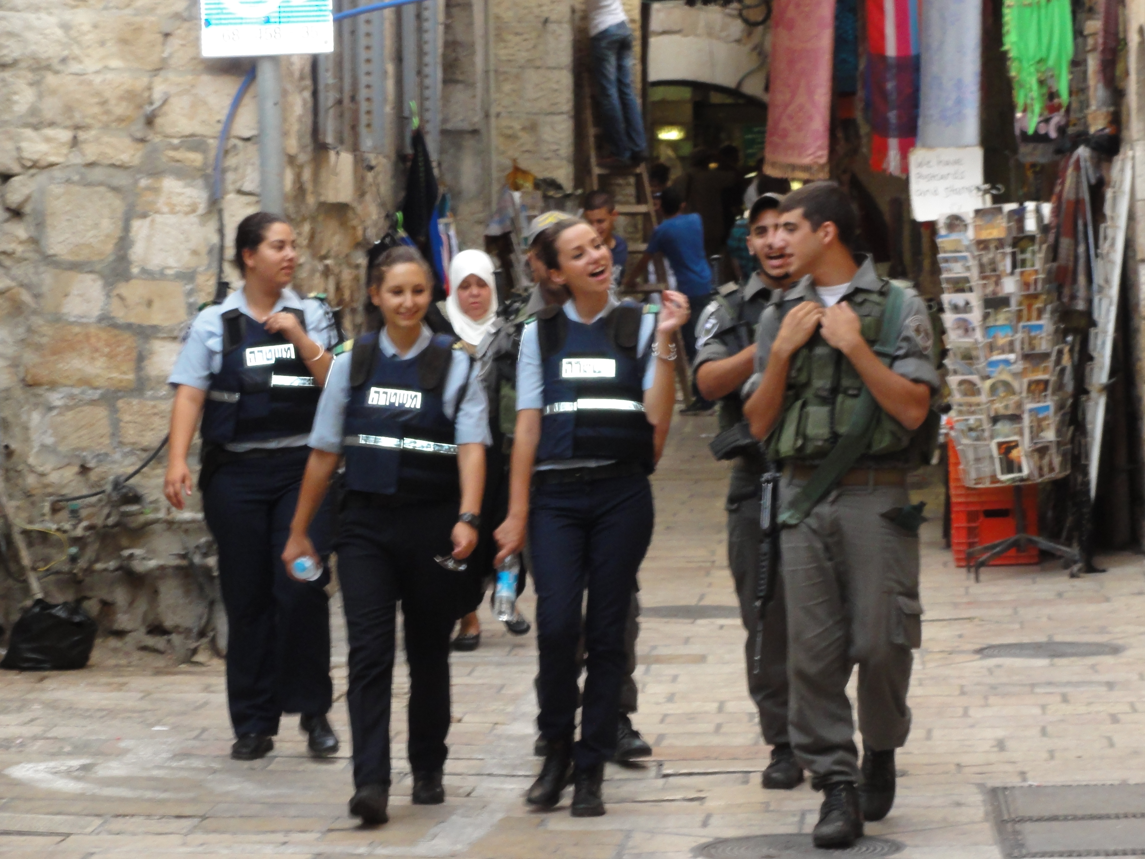 Old Jerusalem, muslim quarter, El Wad (Ha-Gai), Police and MAGAV on patrol in Jerusalem